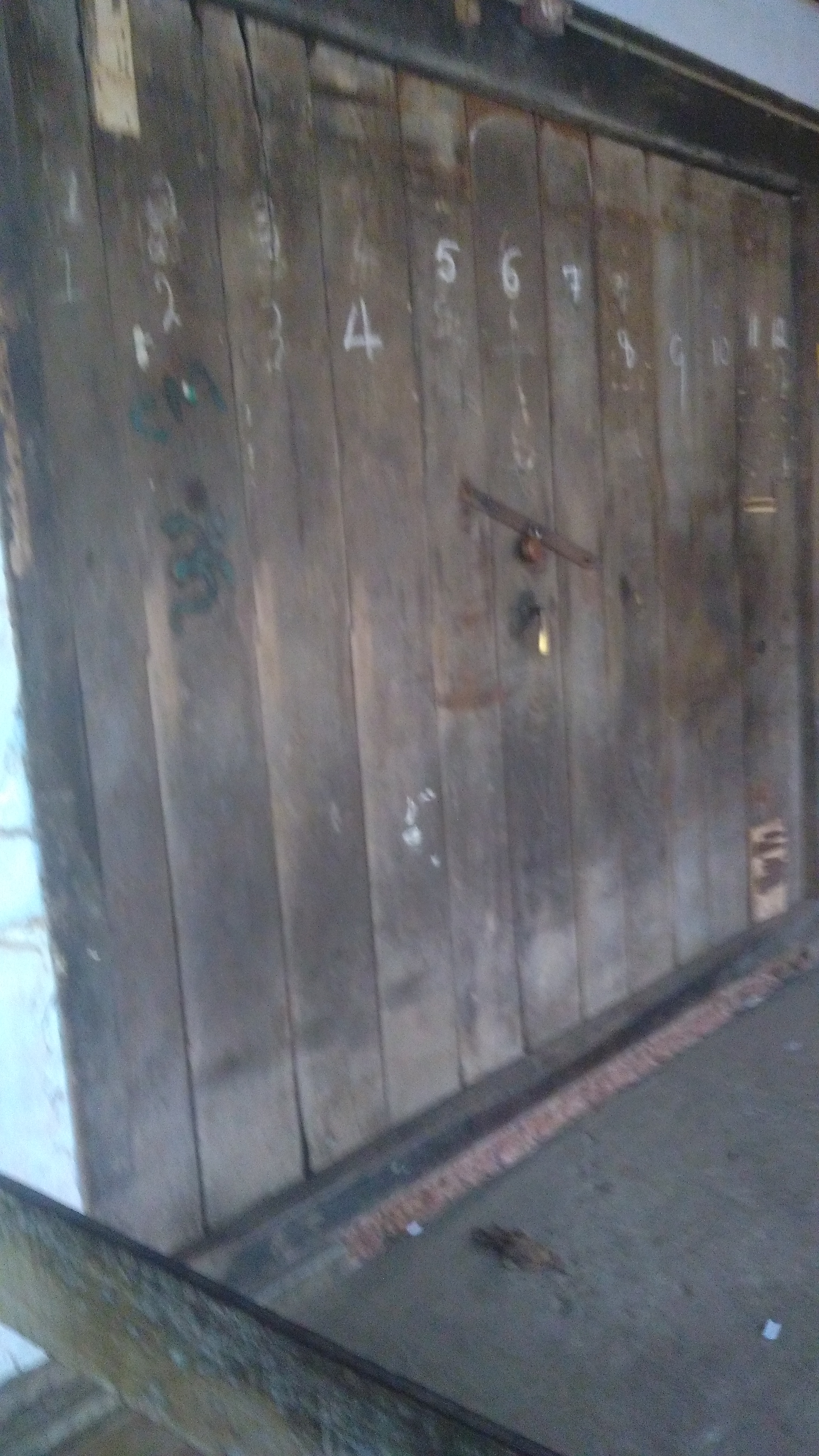 നിരപ്പലക